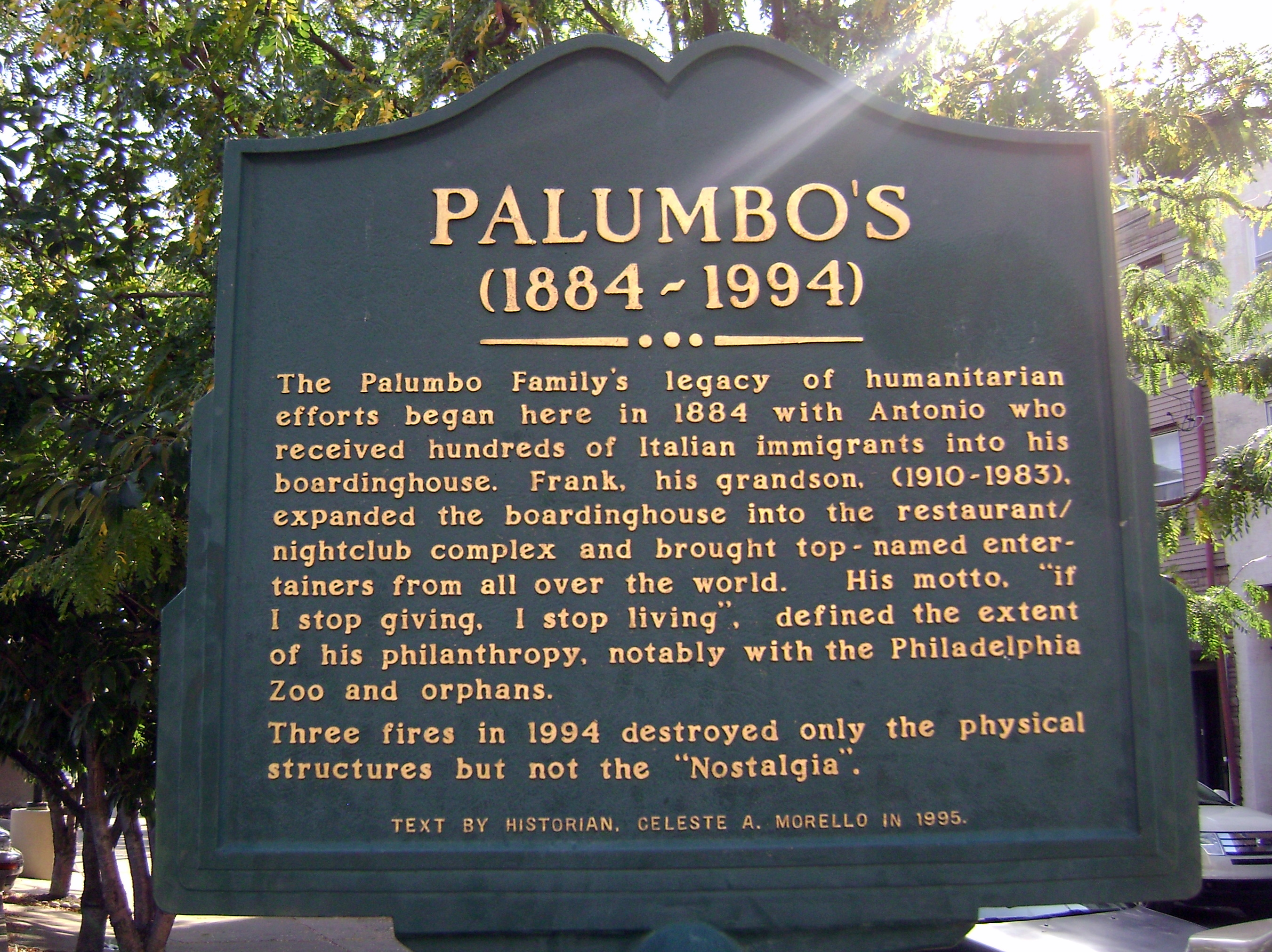 The plaque at the former location of Palumbos, 9th and Catharine St.